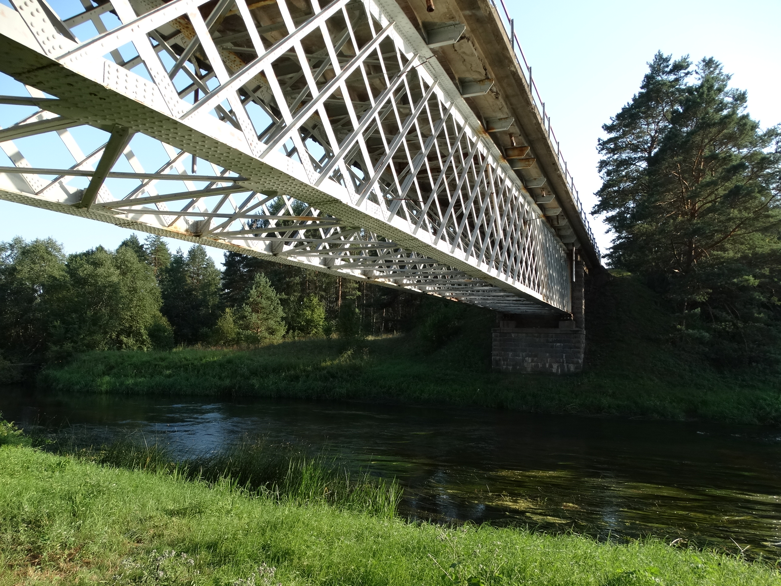 Bridge on Šventoji River, Mickūnai, Anykščiai district, Lithuania